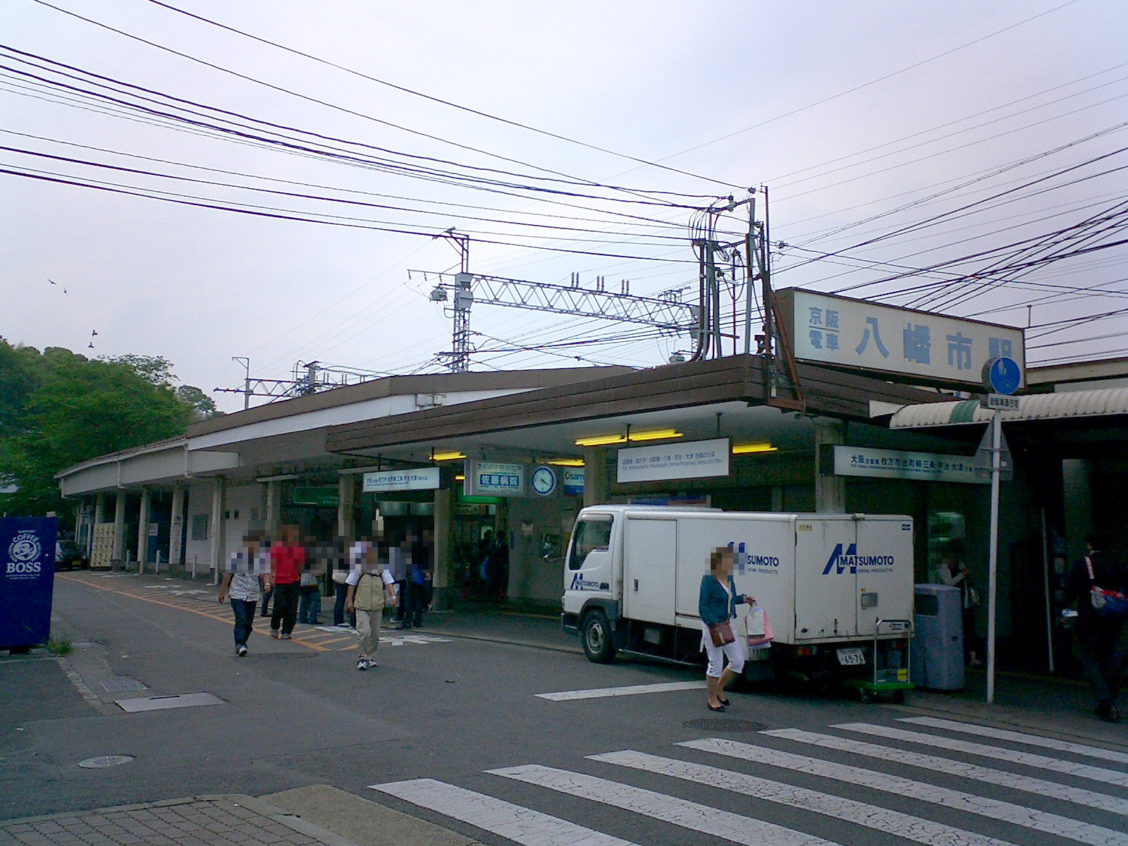 Keihan Electric Railway Keihan Main Line Yawatashi Station Main Gate